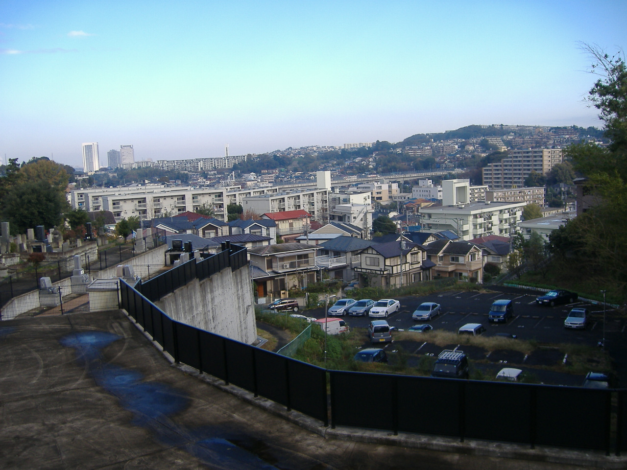 Sasage town(Kōnan-ku, Yokohama)